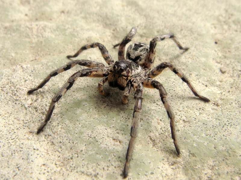 Lycosa tarantula, Europe, Portugal, Leiria, Ansião